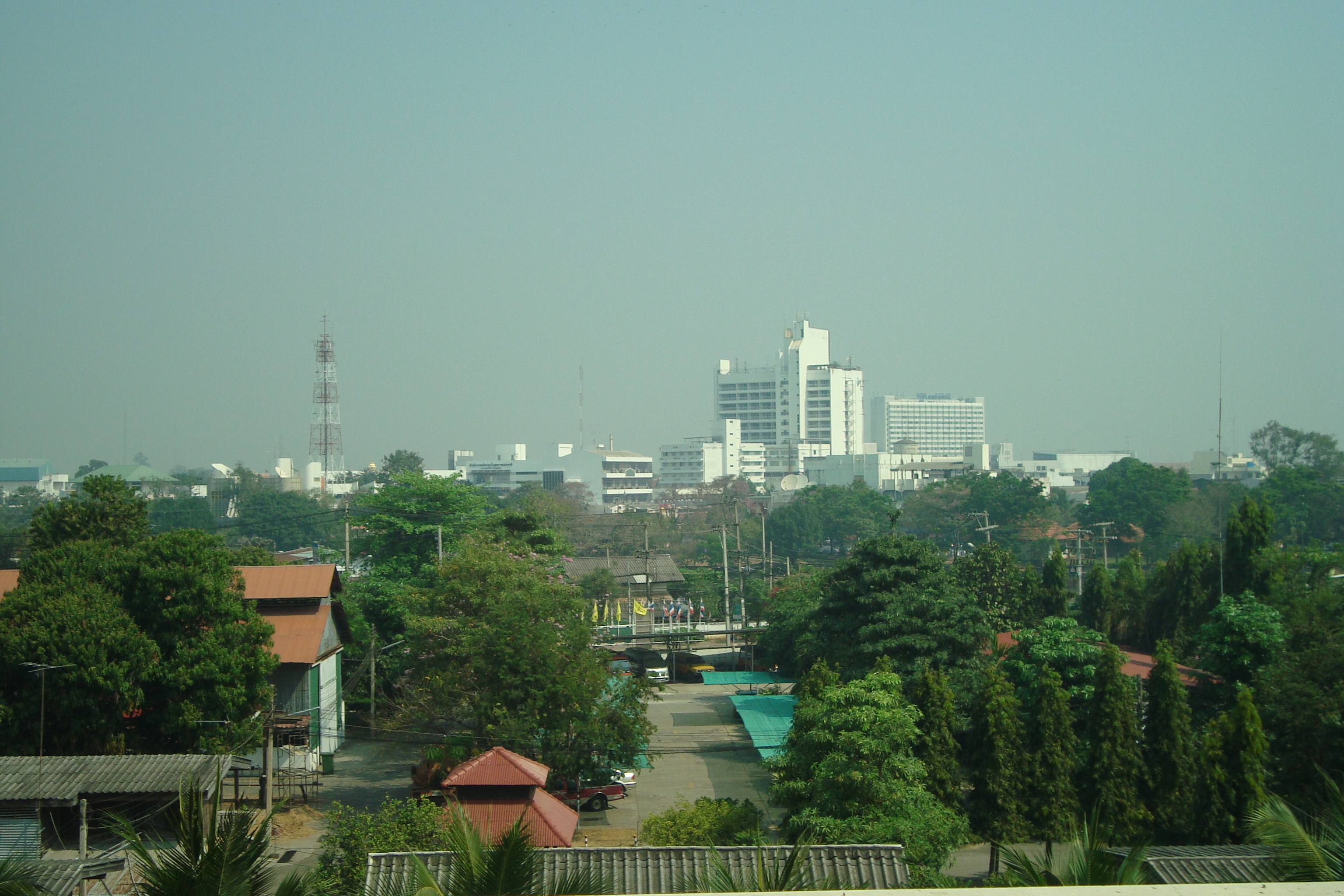 by Alex Jonlin, skyline of Phitsanulok from Grand Riverside Hotel